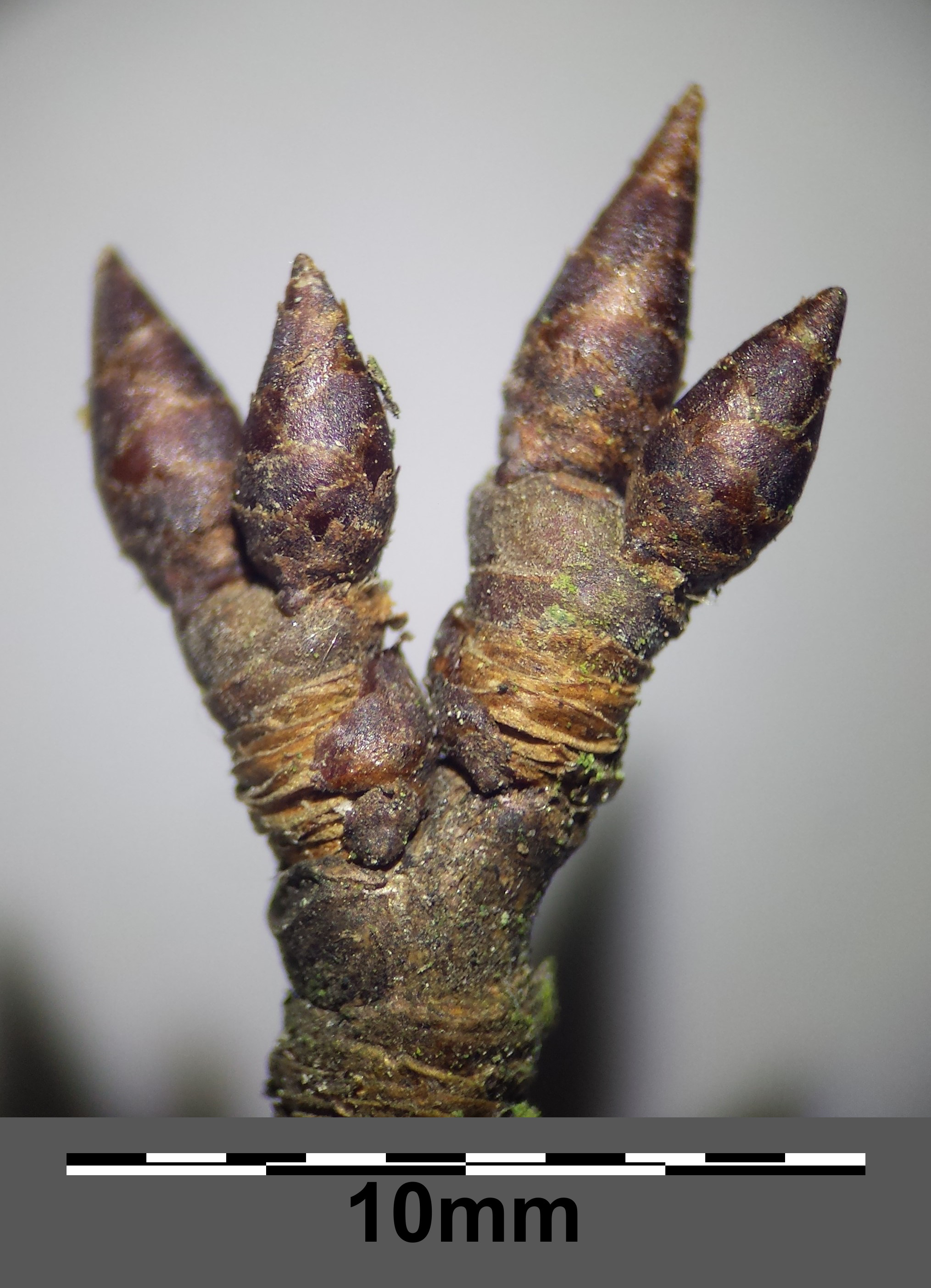 Short shoots with buds Taxonym: Prunus domestica ss Fischer et al. EfÖLS 2008 ISBN 978-3-85474-187-9 Location: near Niederhollabrunn, district Korneuburg, Lower Austria - ca. 325 m a.s.l. Habitat: shrubbery, former vineyard